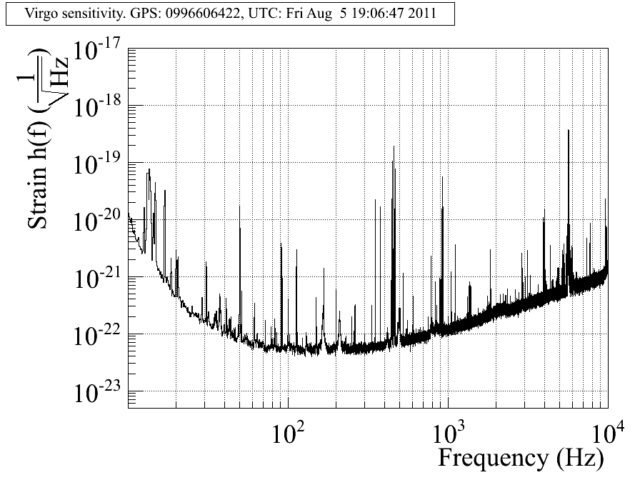 One of the best Virgo sensitivity curves achieved in 2011